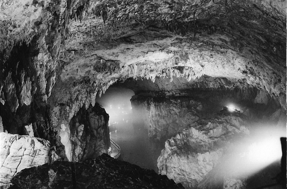 Akiyoshi-do Cave in Japan